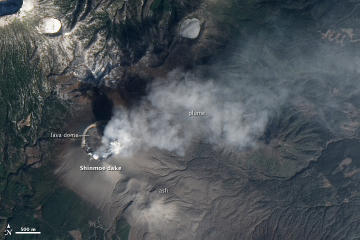 Satellite picture of Kyushu with plumes of Mount Shinmoe (Shinmoe-dake) in Mount Kirishima and Sakurajima, Japan.